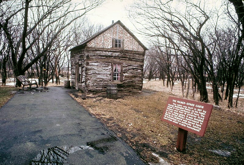 Historic Palmer-Epard-cabin in Homestead National Monument of America, Nebraska, USA. This cabin was build around 1867 on a homestead in the vicinity of the National Monument. It was acquired in 1966 and moved to its current location where it was restored.